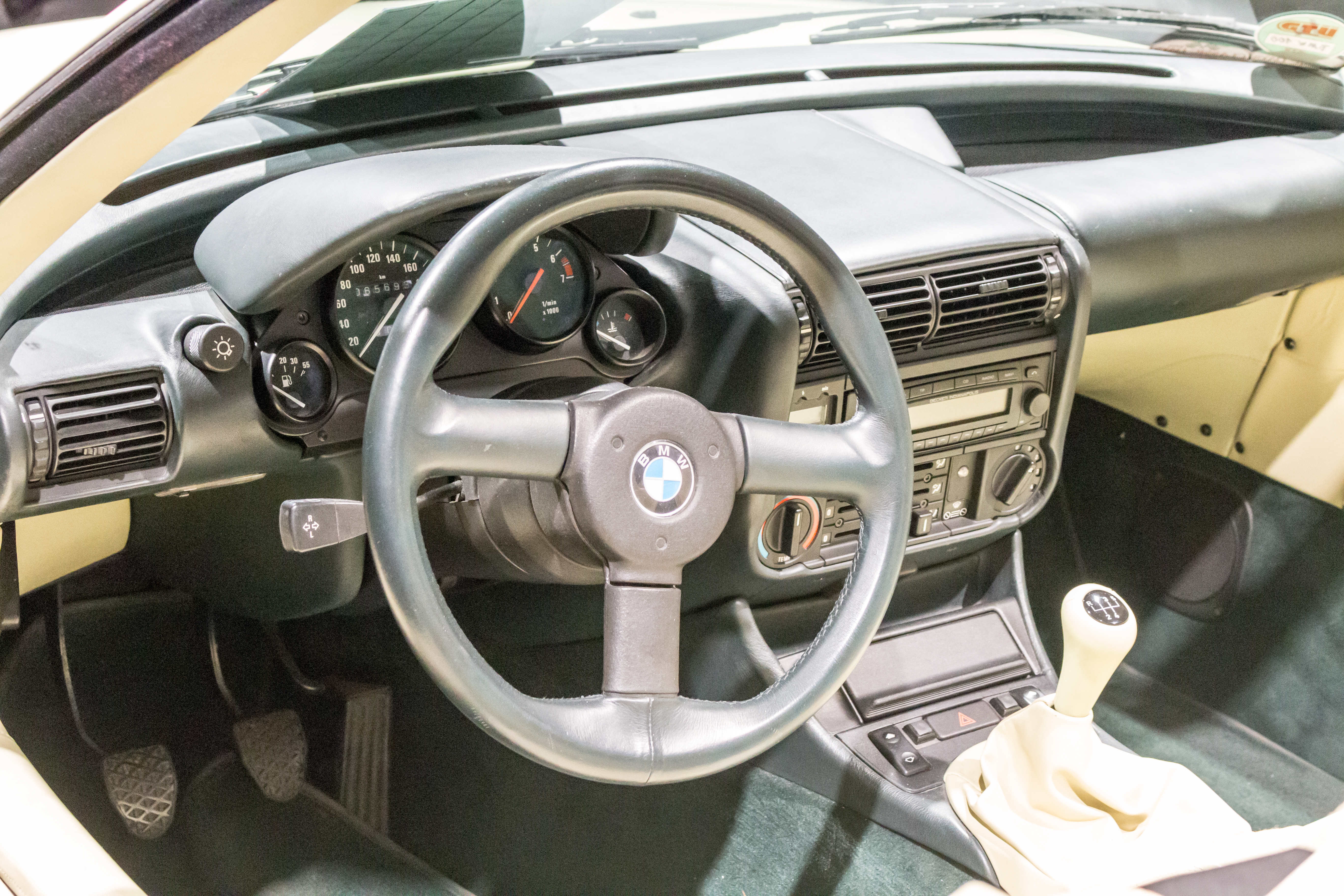 BMW, Techno-Classica 2018, Essen